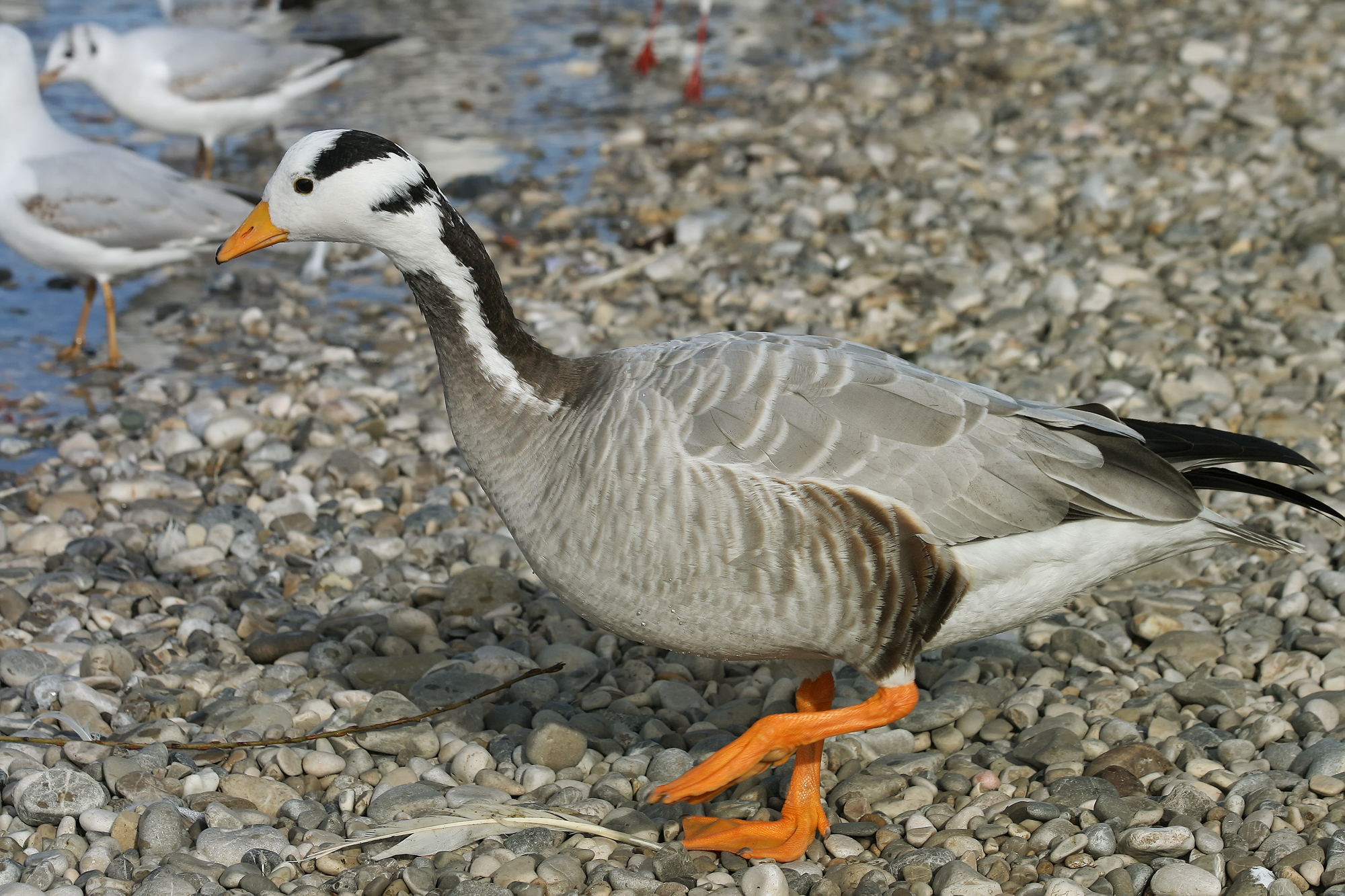 Description: The Anserinae is a subfamily in the waterfowl family Anatidae. It includes the swans and true geese. As shown (Anser indictus)